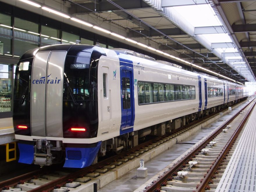 Nagoya Railway 2000 Series at Chubu Centrair Intl. Airport.